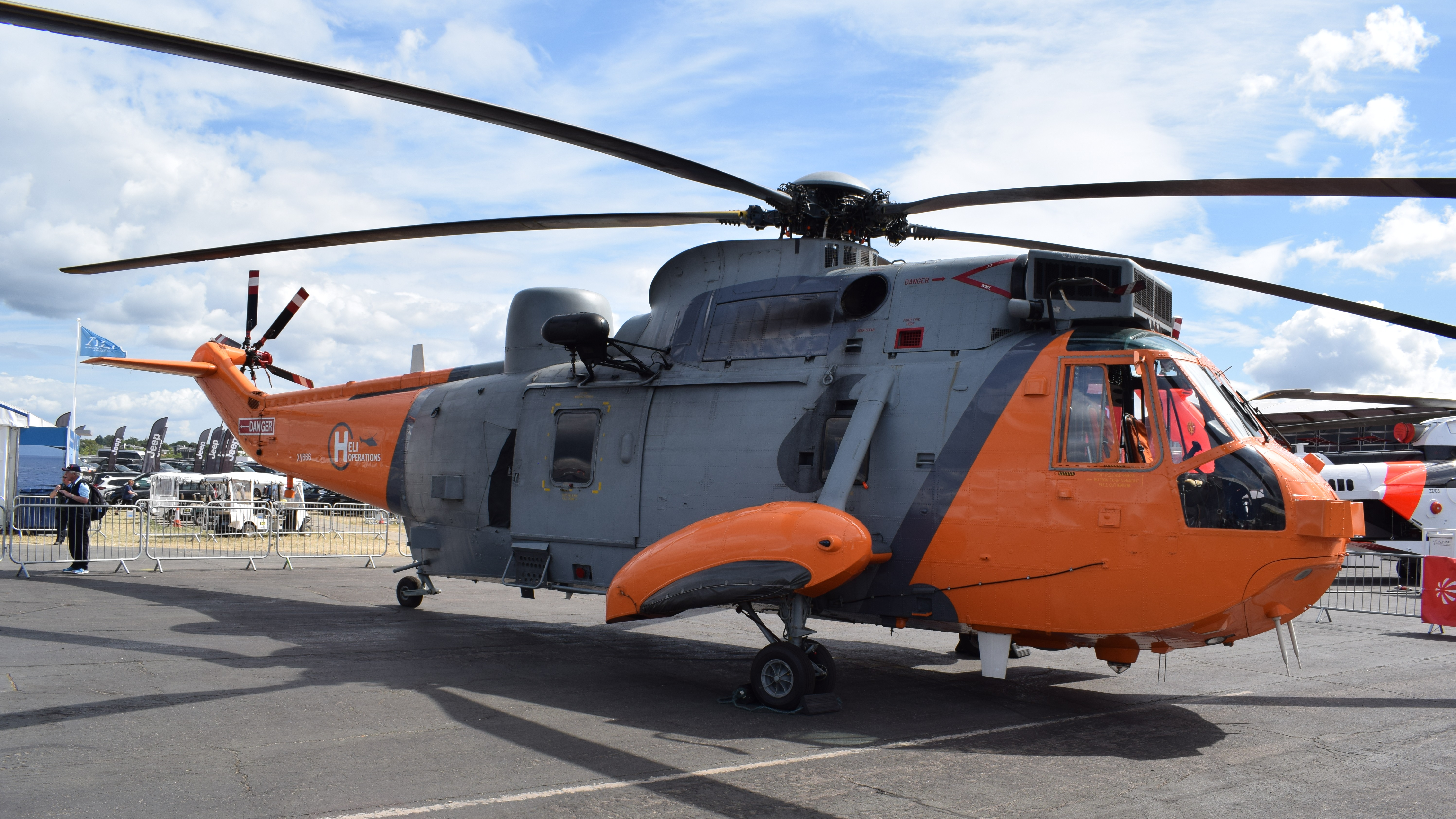 Westland Sea King serial number XV666 on display at Farnborough Air Show 2018. A former Royal Navy Westland Sea King helicopter being used by HeliOperations of Portland to train search and rescue techniques.